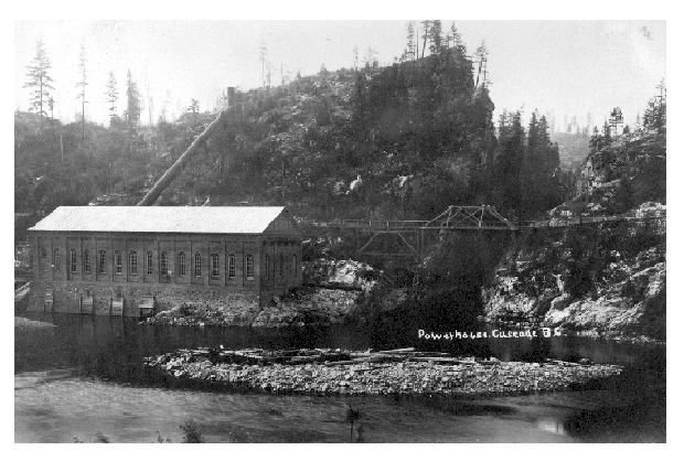 Photographer:Unknown Photo taken:1910 Source:BC Archives #I-60925 [1]